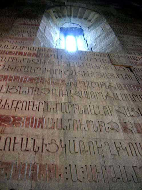 Gandzasar monastery. Inscription of Jalal I (Hasan-Jalal), king of Artsakh, 1238.